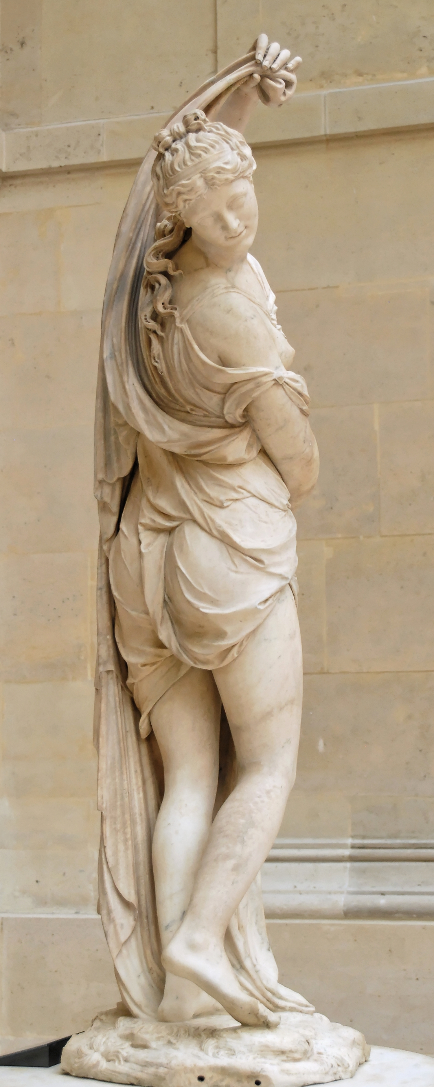 Callipygian Venus. Marble, made at the French Academy in Rome, 1683-1686. Copy of Roman statue then in the Borghese collection, now at the National Archaeological of Naples. The drapery was added later by Jean Thierry (1669-1739) for decency reasons.